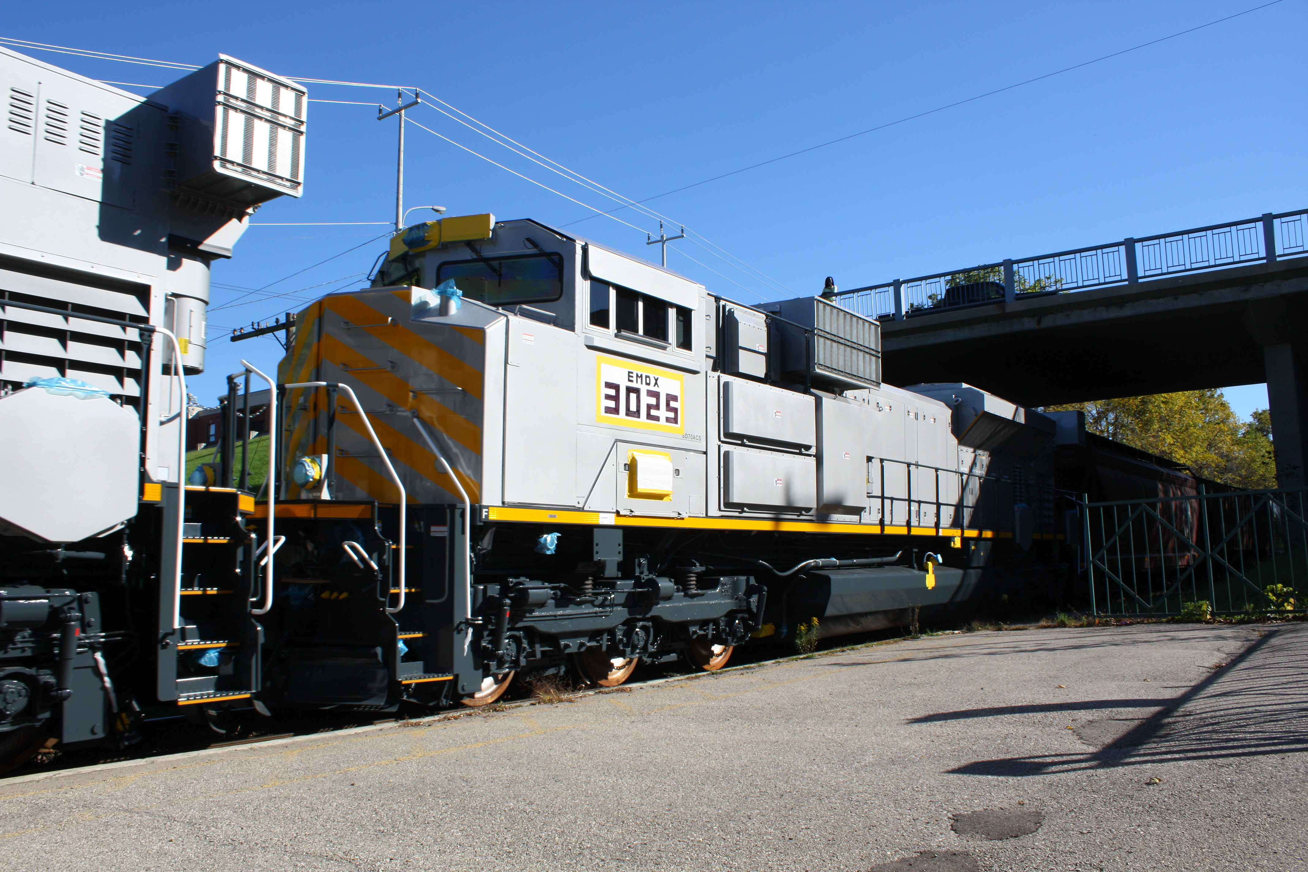 EMD SD70ACS number 3025 (following sister units 3024, 3023 and 3017) head north through St. Mary's (just north of London, Ontario). Part of a 25-unit order for Saudi Railway Company (SAR).